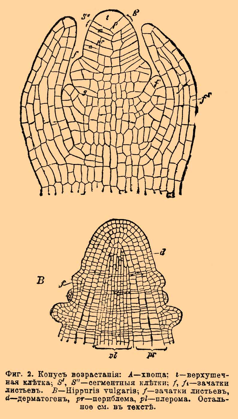 Illustration from Brockhaus and Efron Encyclopedic Dictionary (1890—1907)